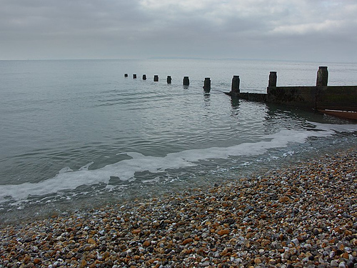 Bracklesham Bay, West Sussex, England. I took this photo myself. It can also be found here.